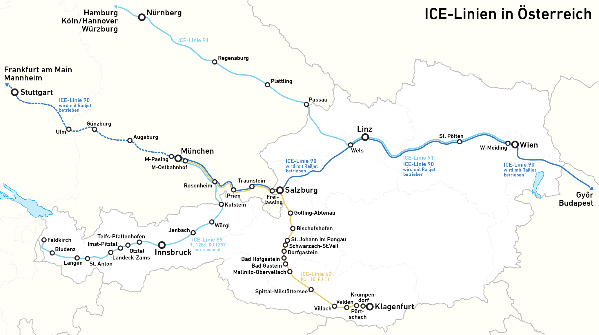 Map of the ICE routes in Austria